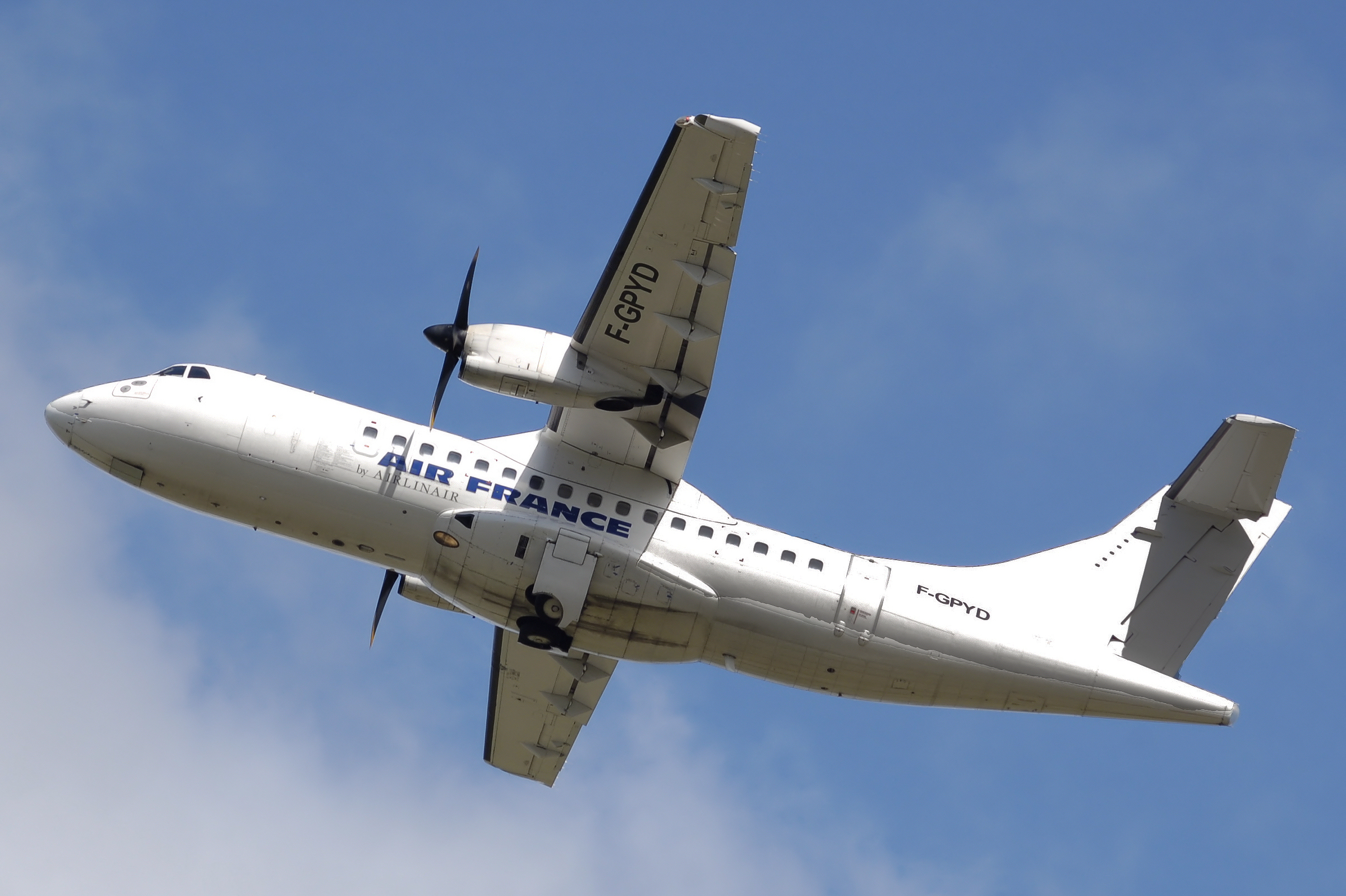 Air France ATR-42-500 (F-GPYD), operated on behalf of Air France by the airline Airlinair, takes off from Bristol International Airport, Bristol, England.